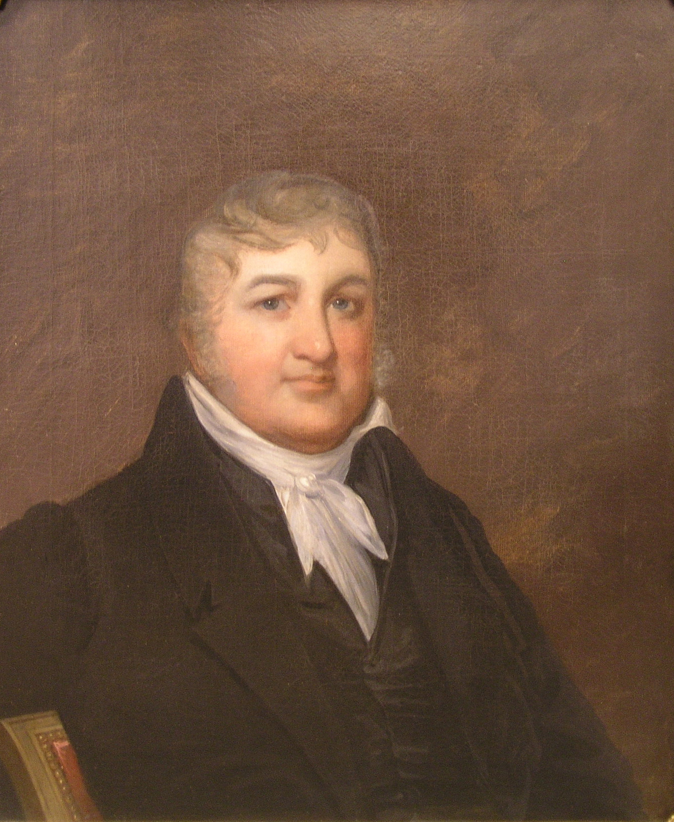 Portrait of George Mathews (1774-1836), Presiding Judge of the Louisiana Supreme Court